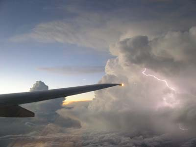 Airborne on Jet air from Kolkata to Mumbai